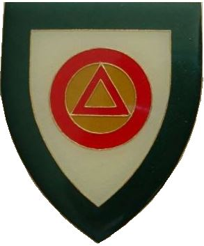 SADF era Highway Commando emblem